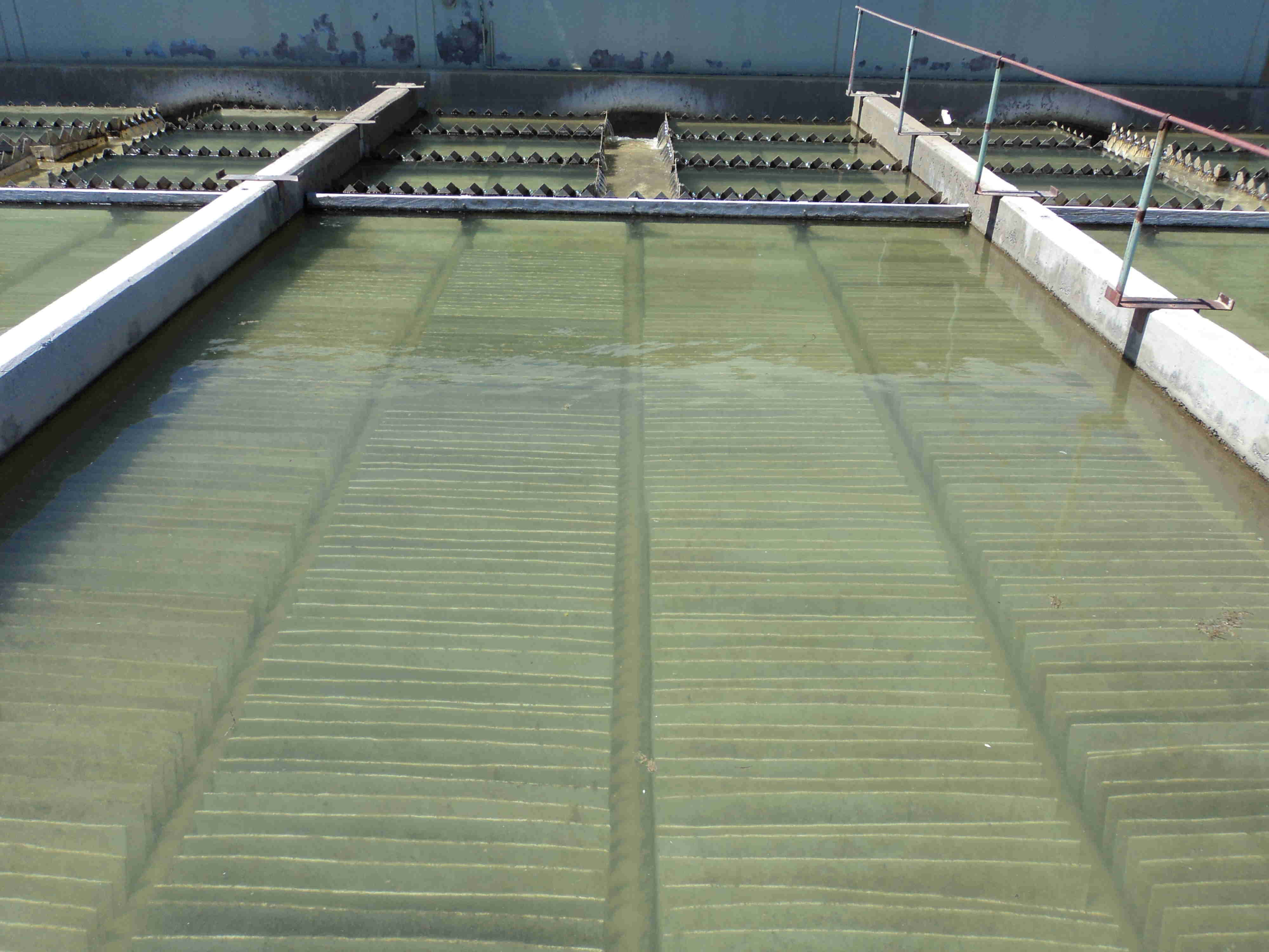 Decantador de flujo inclinado (o de alta tasa) - Planta potabilizadora Acueducto Nuevo